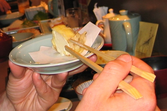 Subject: Tempura ice cream. Photographer: Derek Mawhinney Date: 8/27/2005. アイスクリームの天ぷら I license this under Attribution ShareAlike 2.5